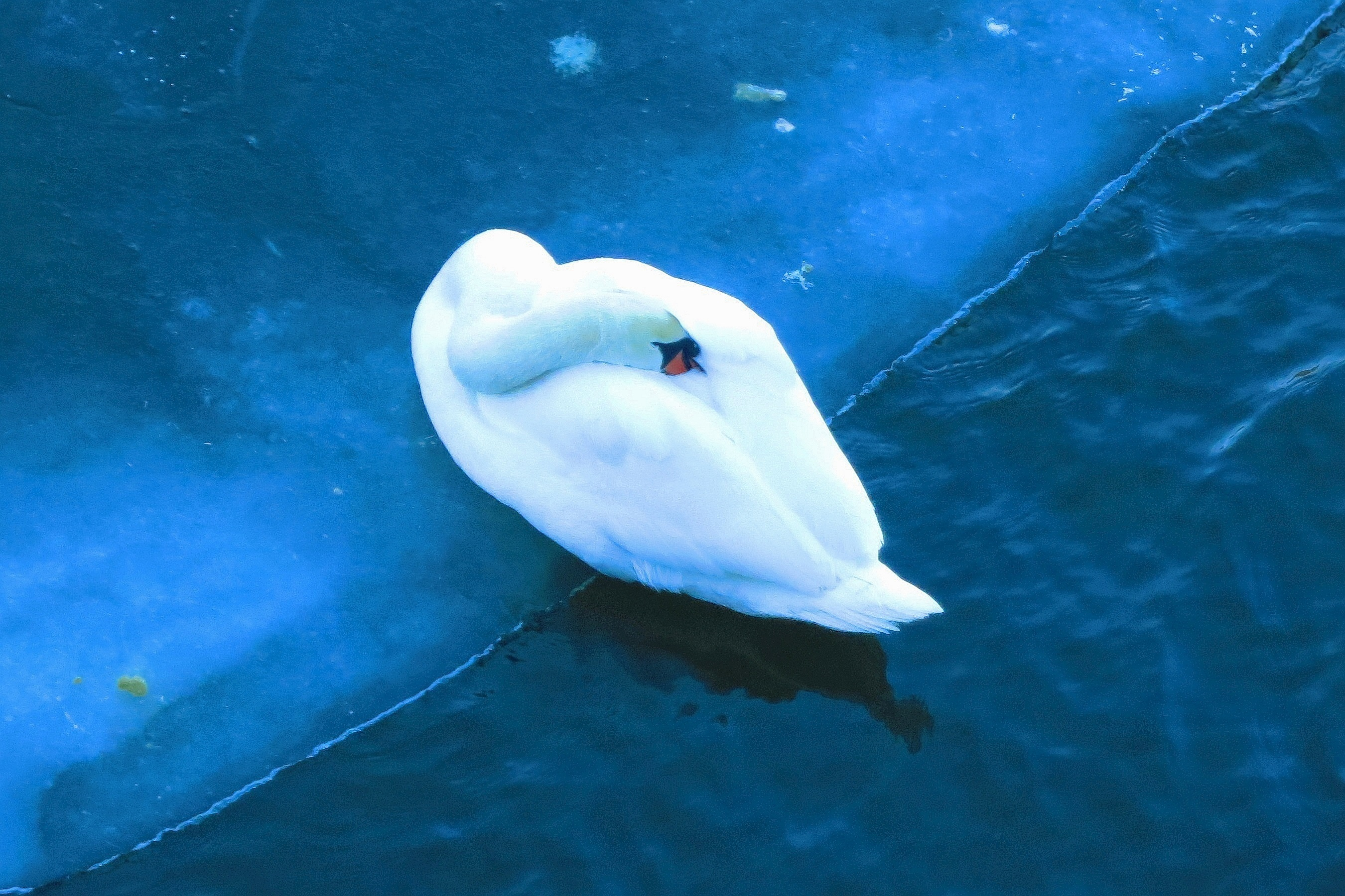 Cygnus olor on ice of Norrström (Stockholm, Sweden)